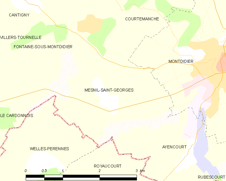 Map of French municipality Mesnil-Saint-Georges